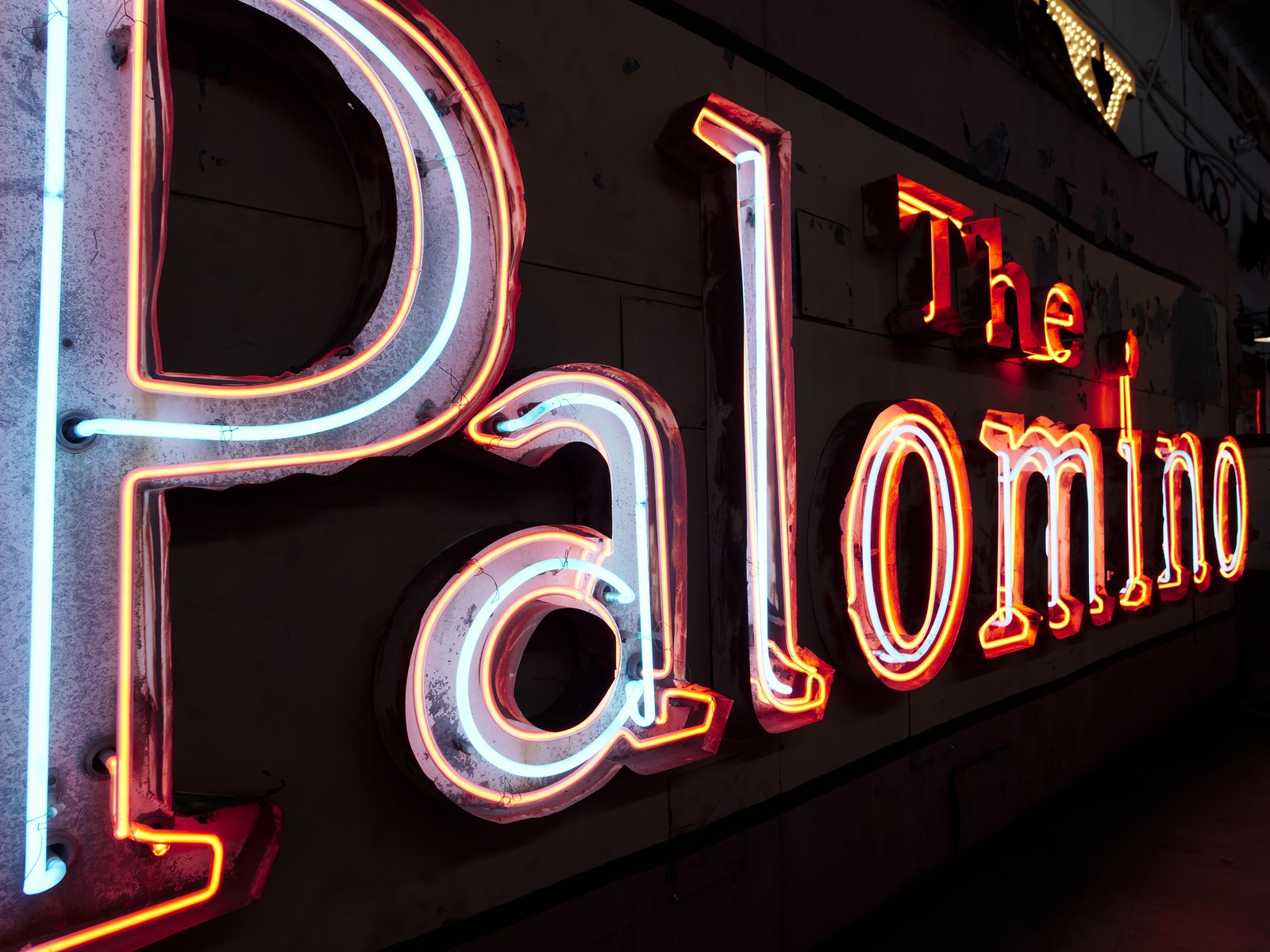 Neon sign from the defunct Palomino Club displayed at the Valley Relics Museum